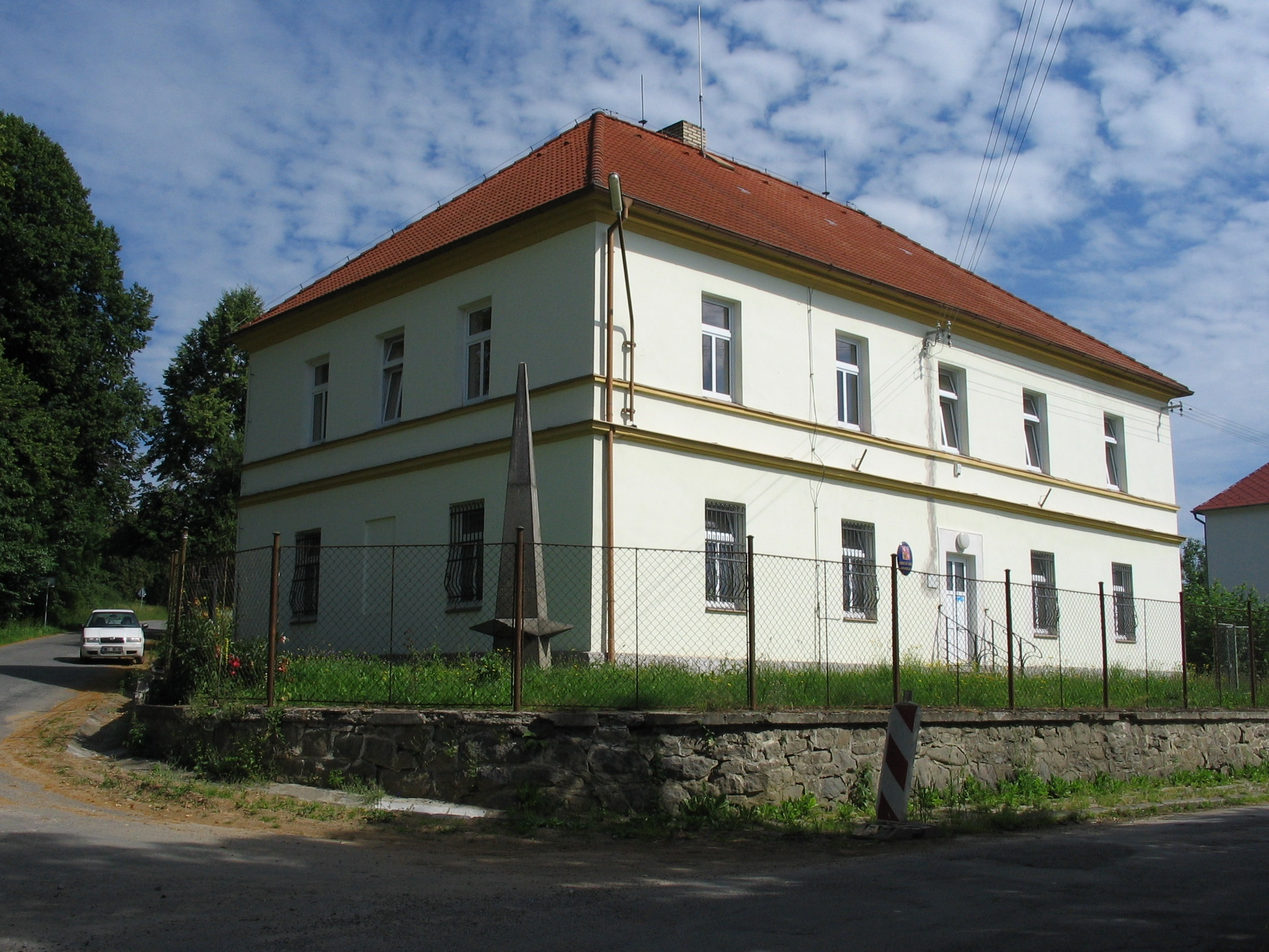 Municipal office in Kraselov, Strakonice District, Czech Republic